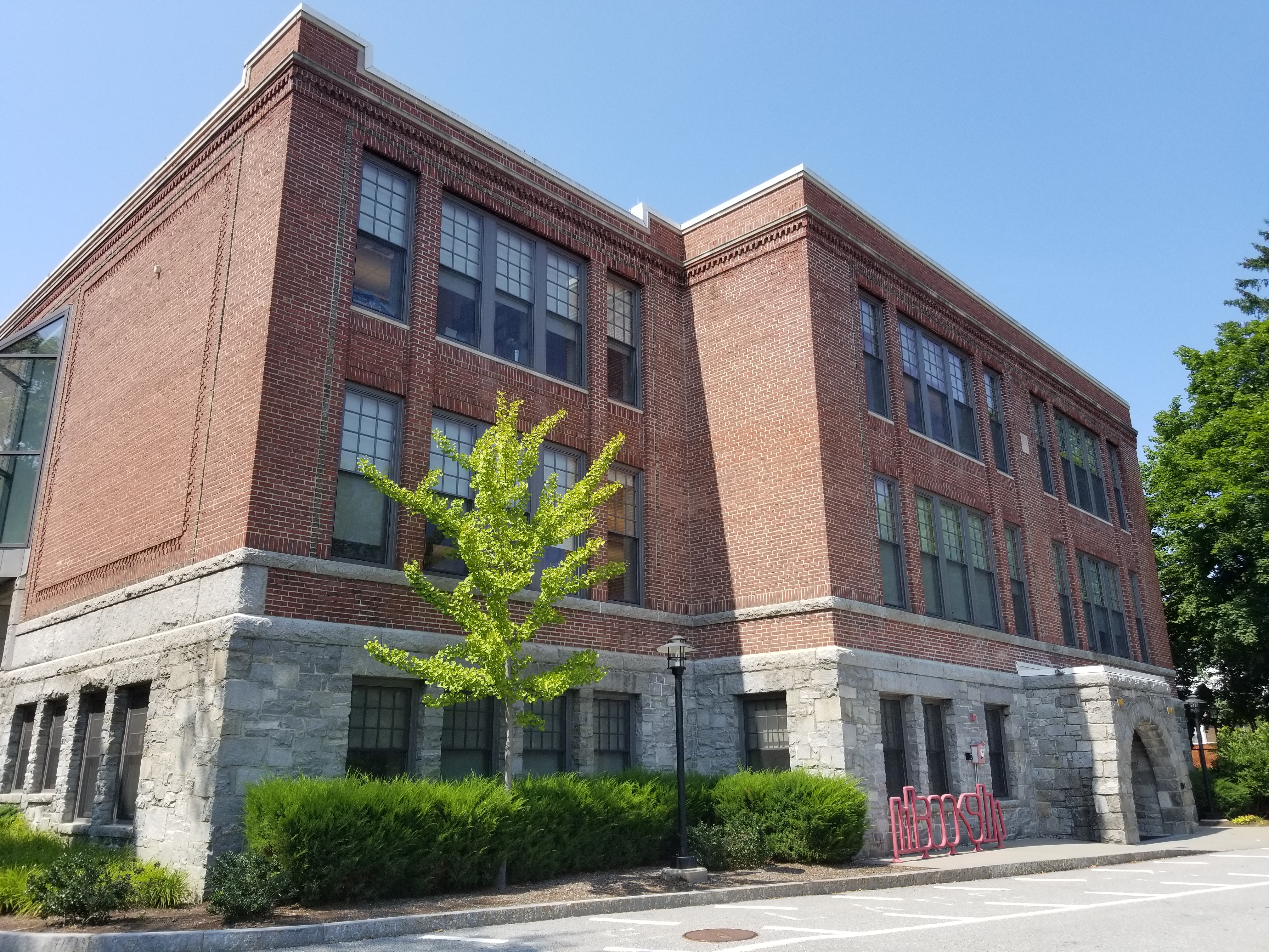 Maynard Public Library rear view in 2018 in Maynard Massachusetts MA